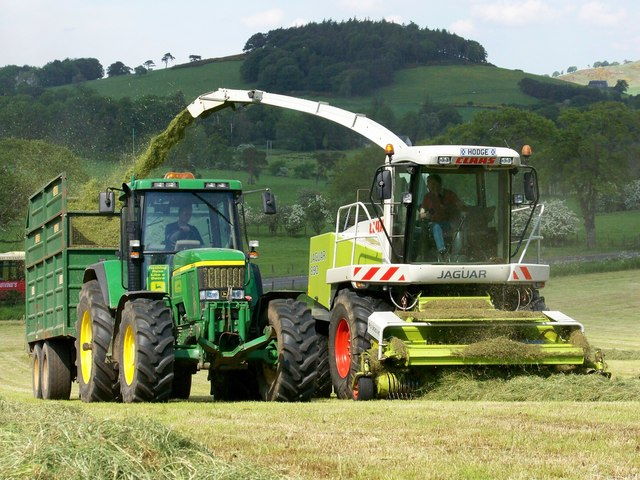 Chopping Grass for Silage, near to Wolfclyde, South Lanarkshire, Great Britain. Self-propelled Forage Harvester (Claas Jaguar 890) at action in fields near Wolfclyde Farm.